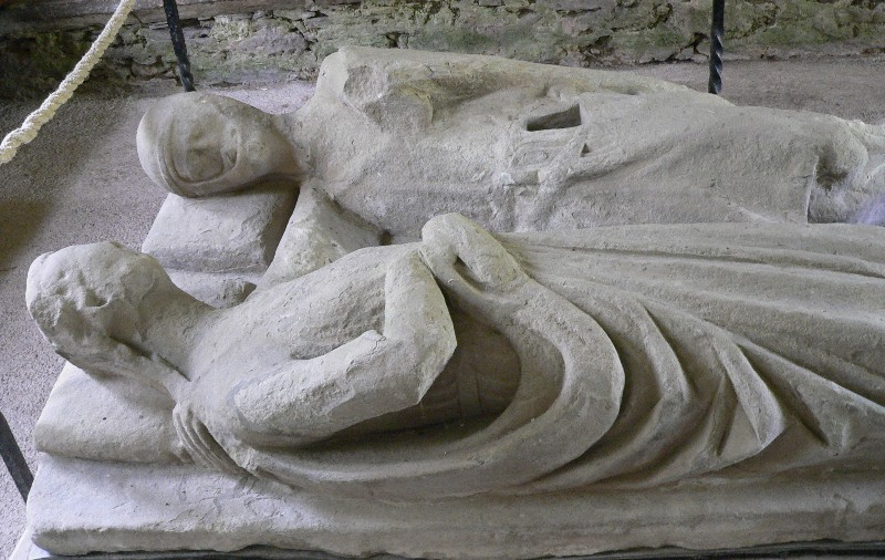 Effigy at Inchmahome Priory, Scotland